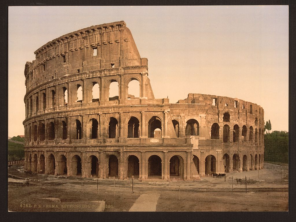 [Exterior of the Coliseum, Rome, Italy] [between ca. 1890 and ca. 1900]. 1 photomechanical print : photochrom, color. Notes: Title from the Detroit Publishing Co., Catalogue J--foreign section, Detroit, Mich. : Detroit Publishing Company, 1905. Print no. "6782". Forms part of: Views of architecture and other sites in Italy in the Photochrom print collection. Subjects: Italy--Rome. Format: Photochrom prints--Color--1890-1900. Rights Info: No known restrictions on reproduction. Repository: Library of Congress, Prints and Photographs Division, Washington, D.C. 20540 USA, Part Of: Views of architecture and other sites in Italy (DLC) 2001700650 More information about the Photochrom Print Collection is available at Persistent URL: Call Number: LOT 13434, no. 173 [item]